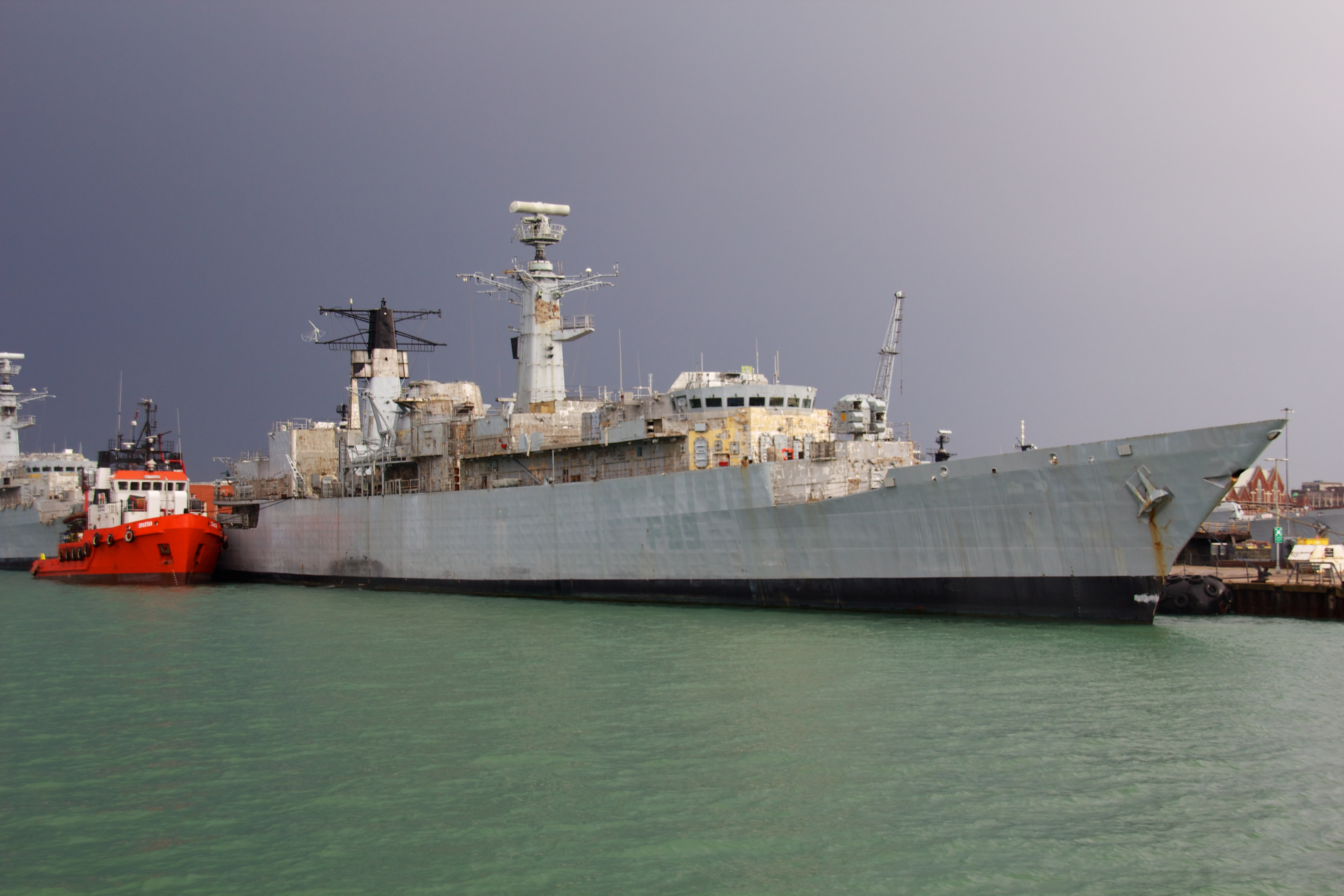 Ships in Portsmouth Harbour on 20th October 2013.